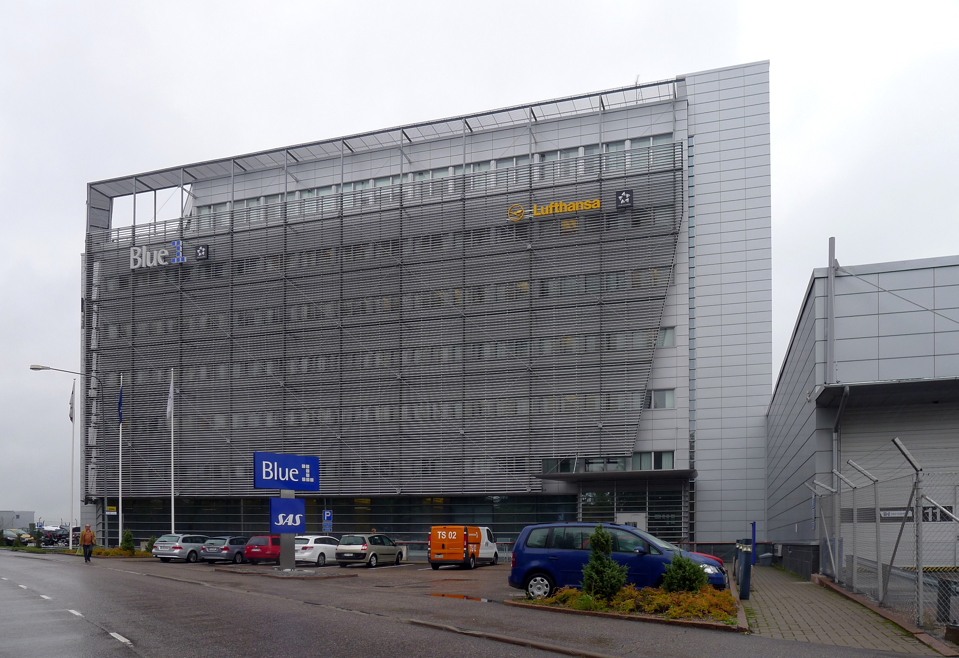 Headquarters of Blue1 at the Helsinki-Vantaa Airport, Rahtitie 3, 01530 Vantaa